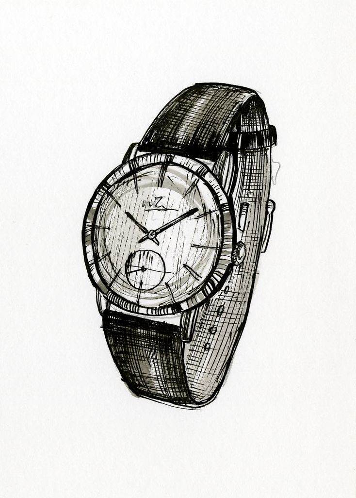 Drawing of the Thesaurus concept : 'watch'. Timepieces small and convenient enough to be carried about on a person. (AAT)